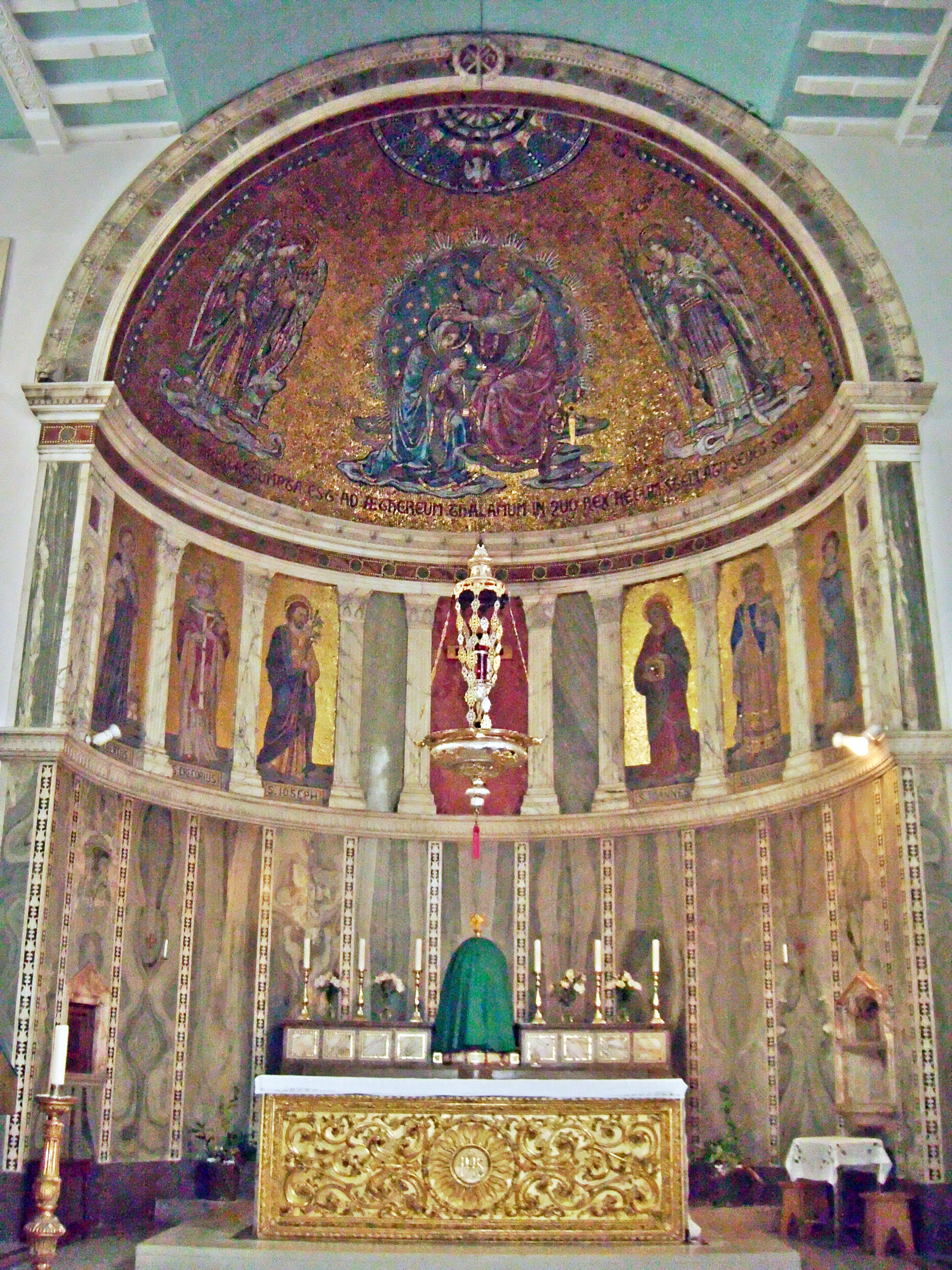 London Warwick Street Church